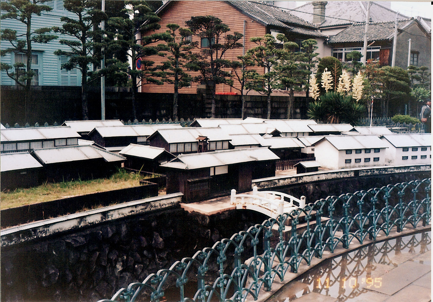 Scale model of Dejima, city of Nagasaki, Japan.